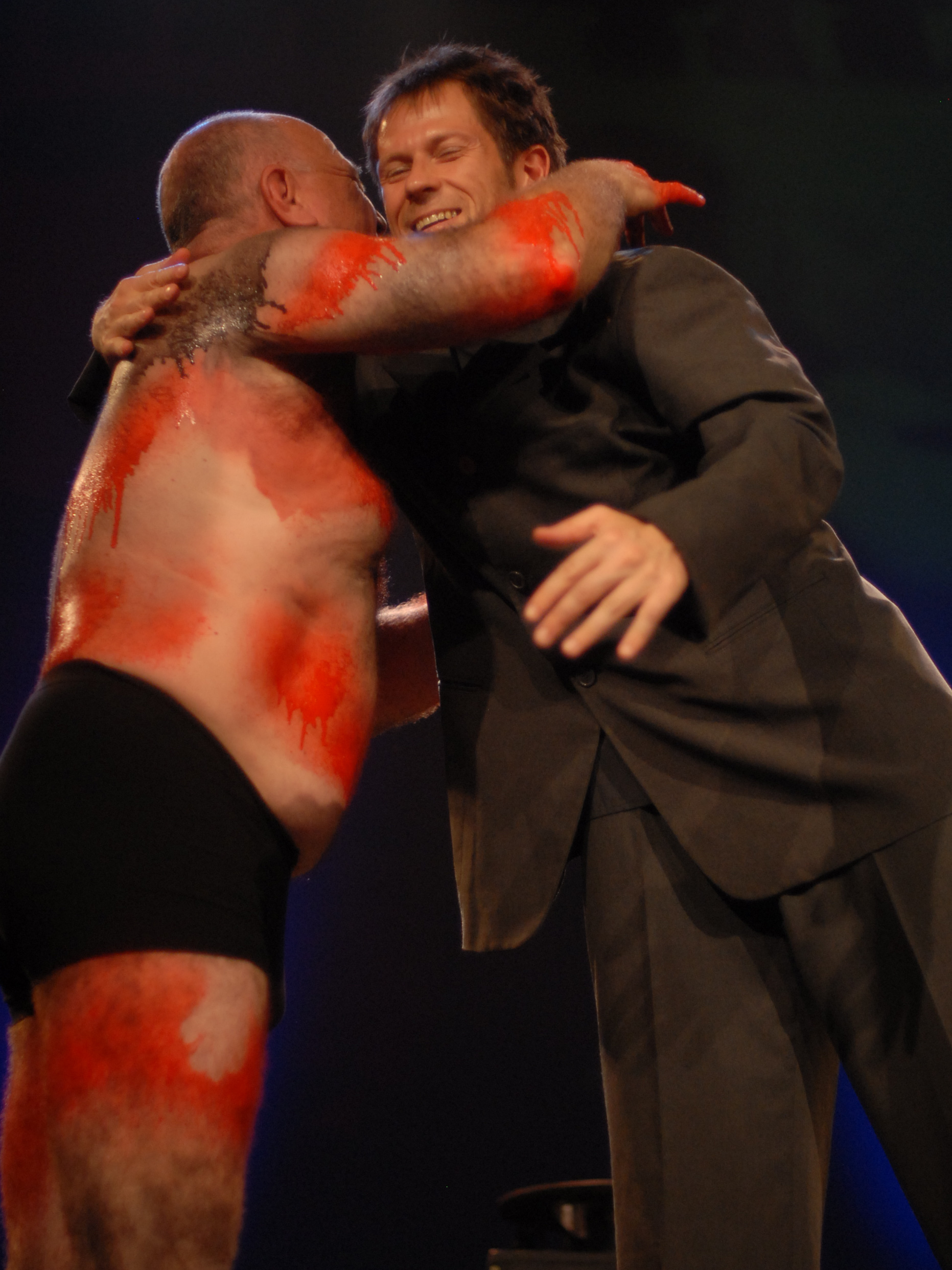 Klaus Werner and Leo Bassi on 17 May 2008 at Orpheum Vienna (Austria), at Bassi's show "Revelación"